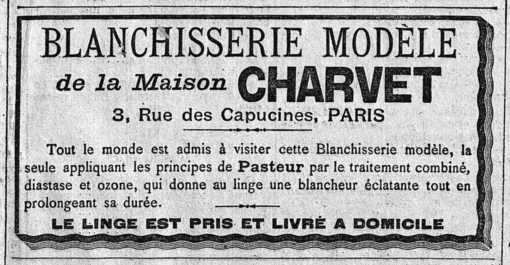 Advertisement for Charvet shirts in Le Figaro.